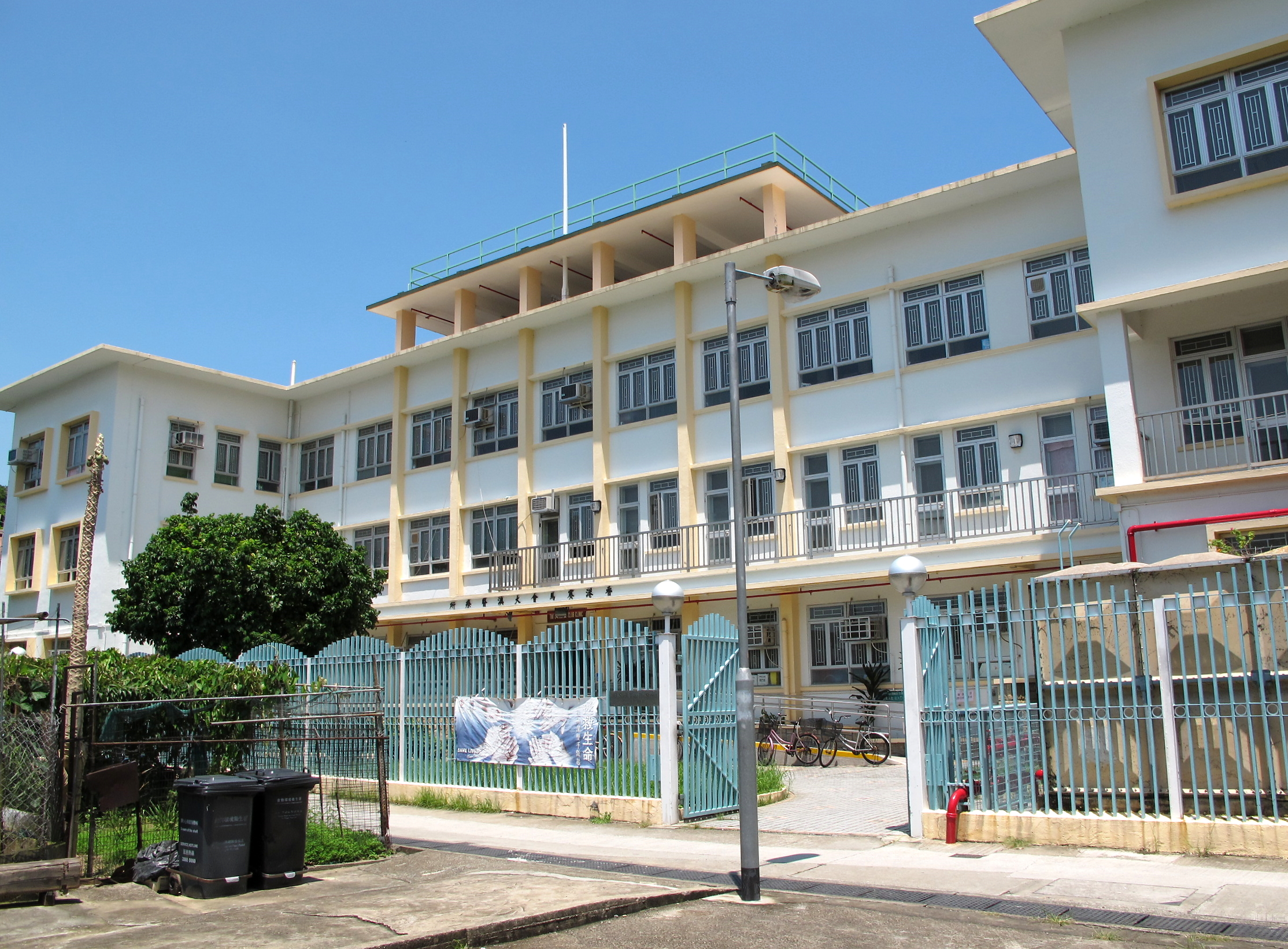 Tai O Jocket Club Clicnic